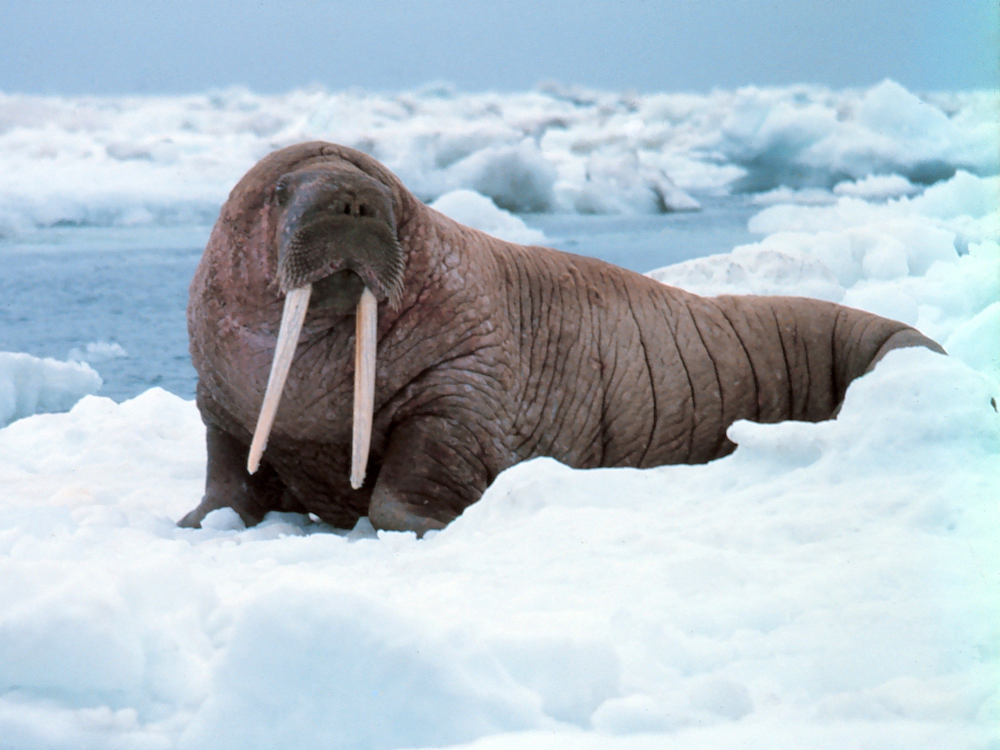 Large walrus on the ice - Odobenus rosmarus divergens - contemplating the photographer - Alaska, Bering Sea